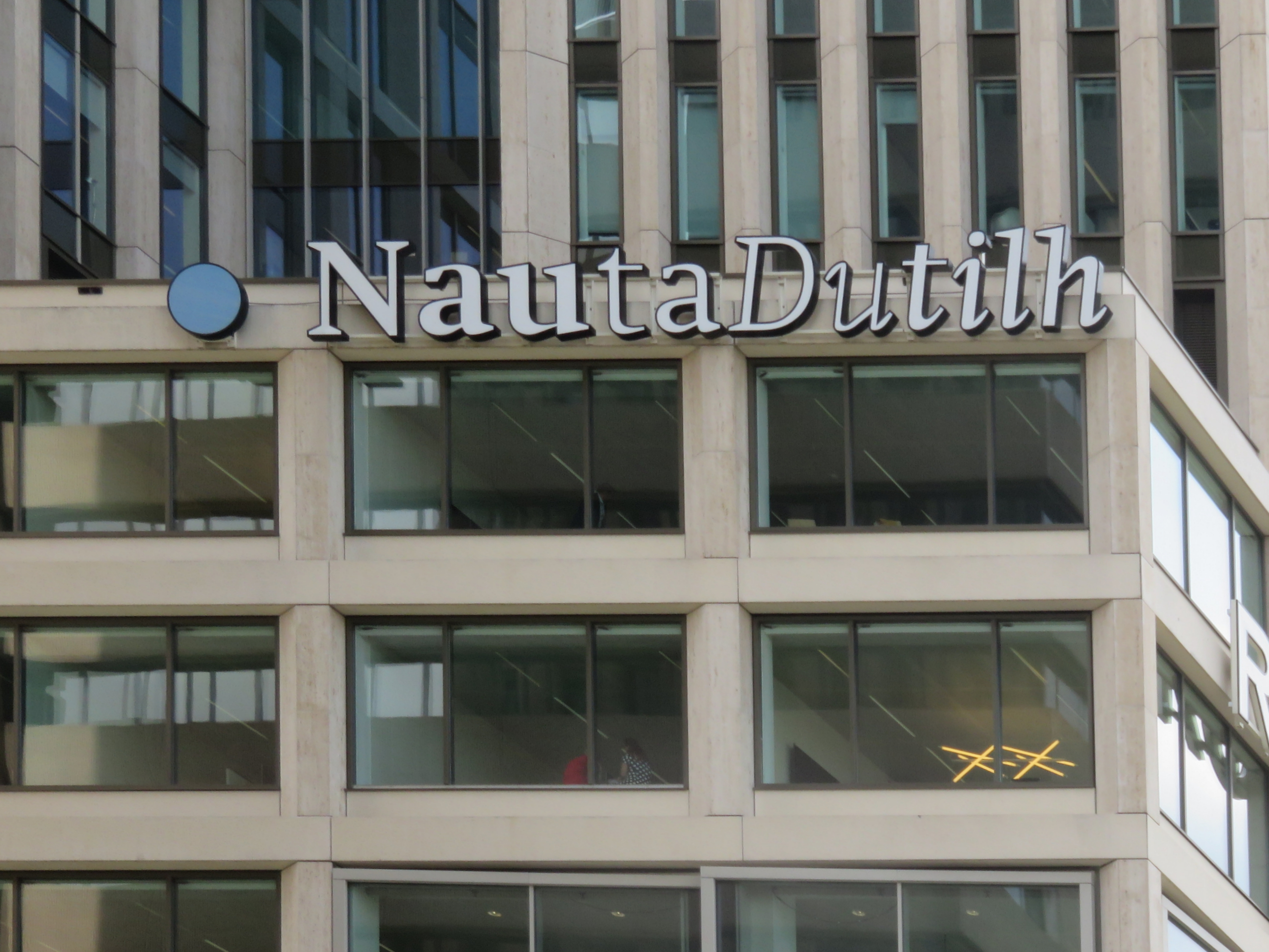 NautaDutilh on building in cavalier perspective, 2019